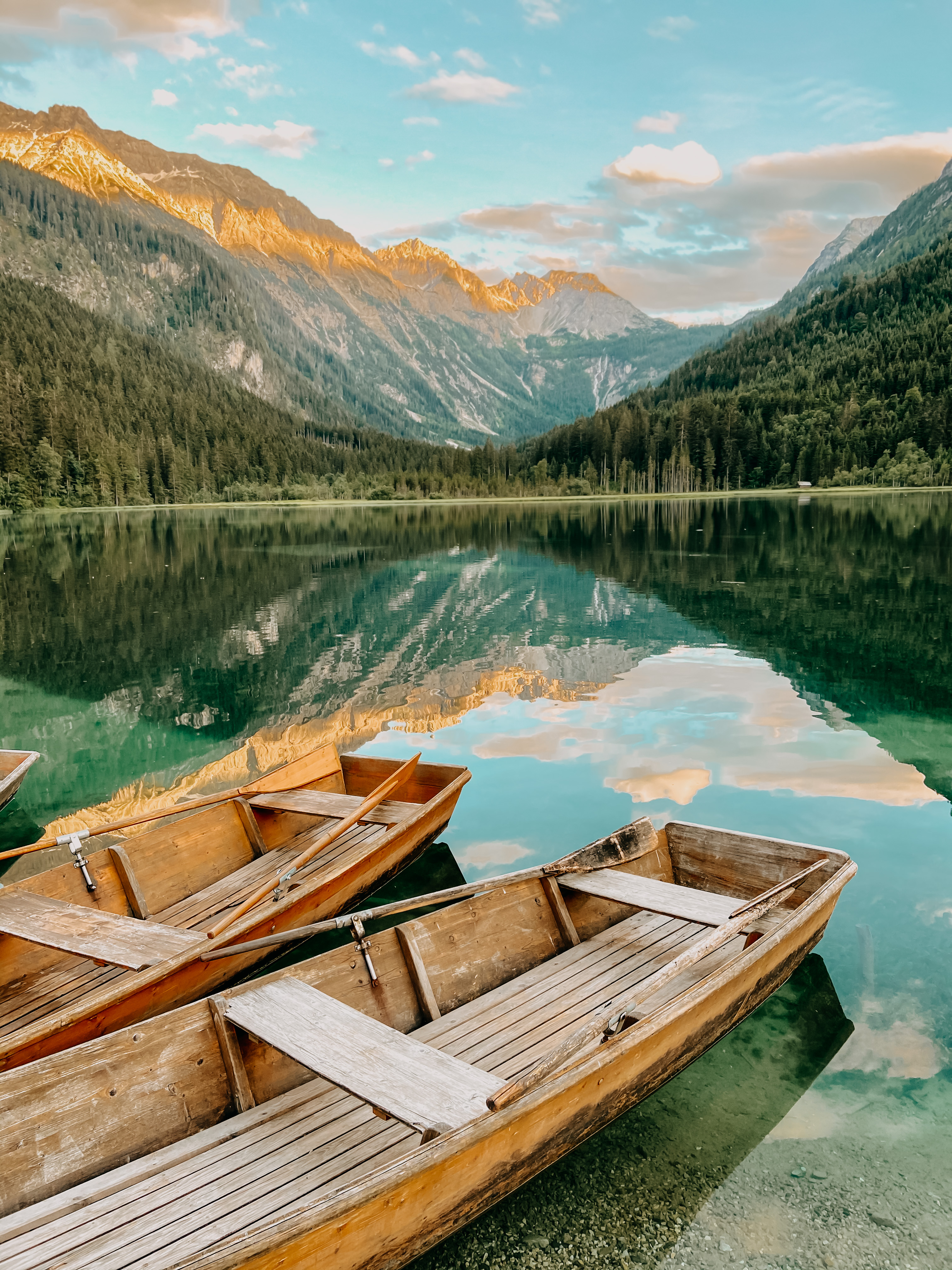 Paddle boats at Jägersee in Kleinarl during Golden Hour